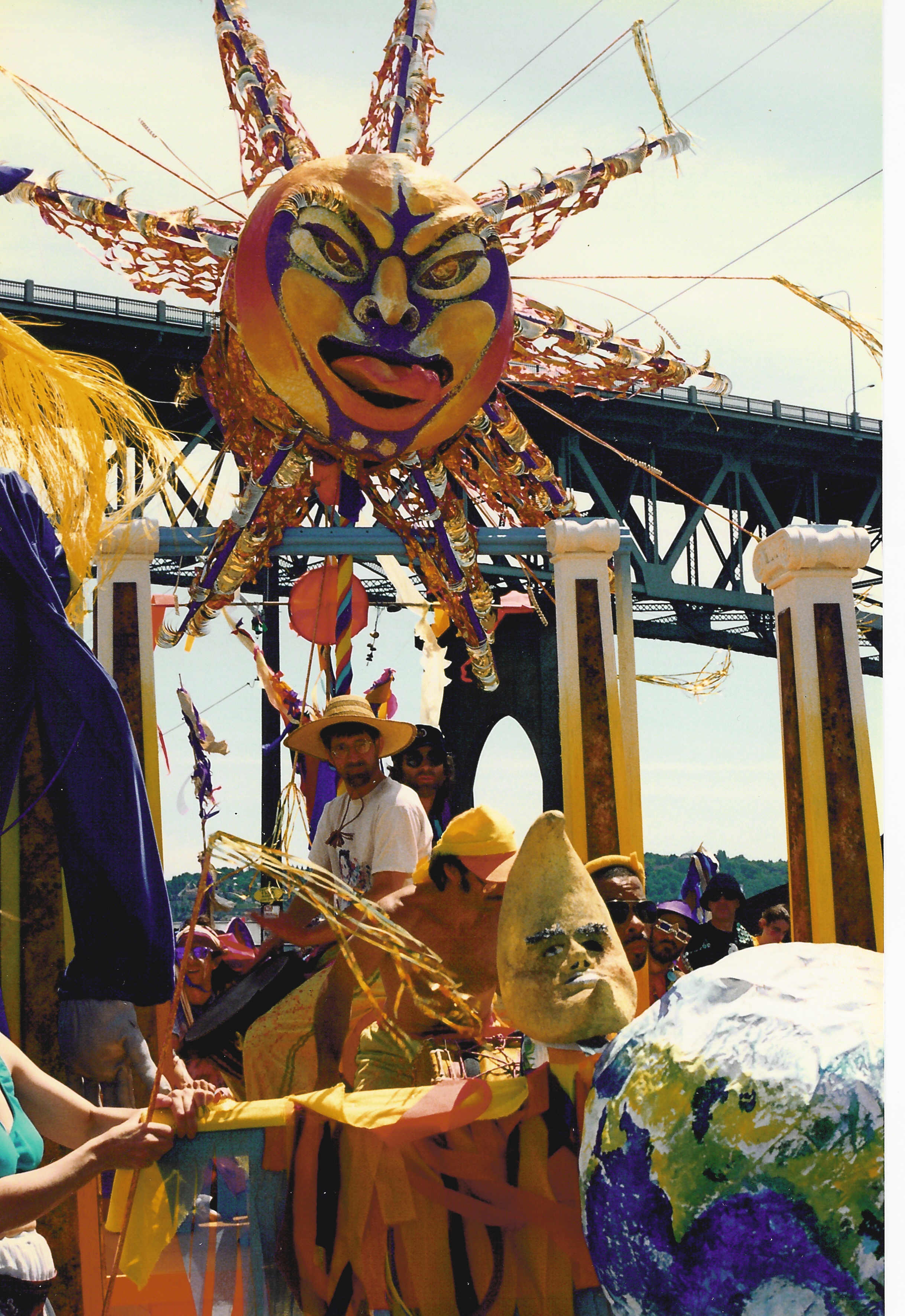 Fremont Summer Solstice Parade and Pageant, part of the Fremont Fair in the Fremont neighborhood of Seattle, Washington, 1992. At that time the parade headed west rather than east as it now does. A small portion of the George Washington Memorial Bridge (Aurora Bridge) can be seen in background.